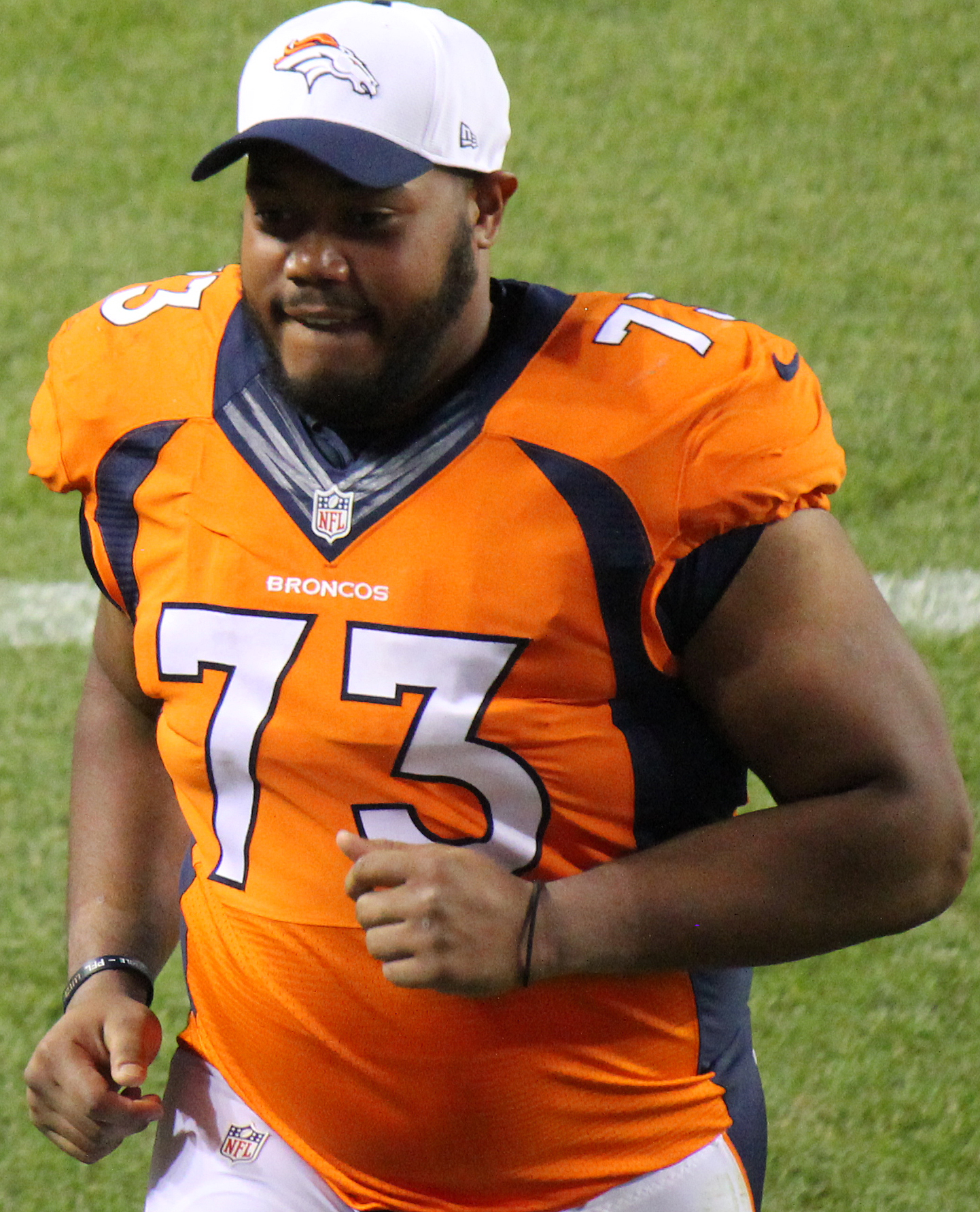 Max Garcia, a player on the National Football League.